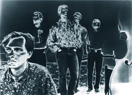 Photo of the band Playhouse at Bellevue beach taken by GaffapeadiaN in the autumn 1995. Feel free to use it.